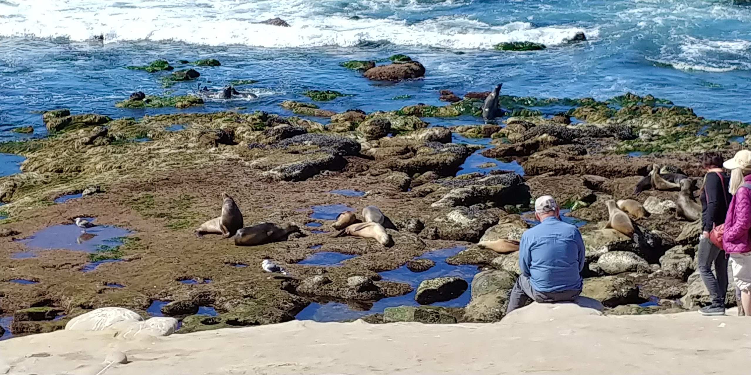 Sea Lions at La Jolla Cove, San Diego, California, US.